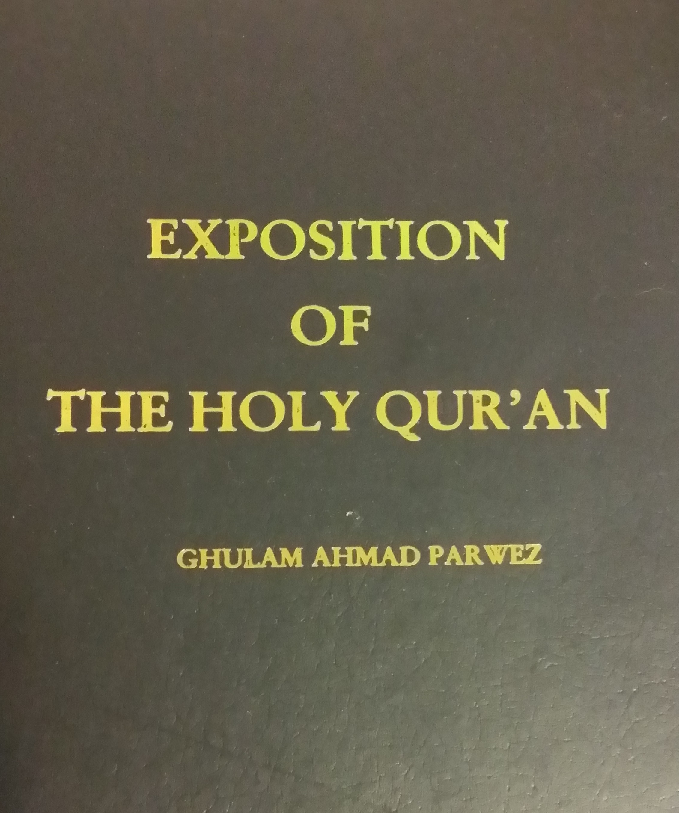 Book Cover - Exposition of the Quran by Ghulam Ahmad Parwez